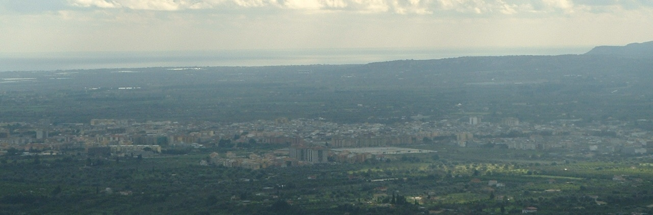 Floridia (SR), View from Climiti Mounts.